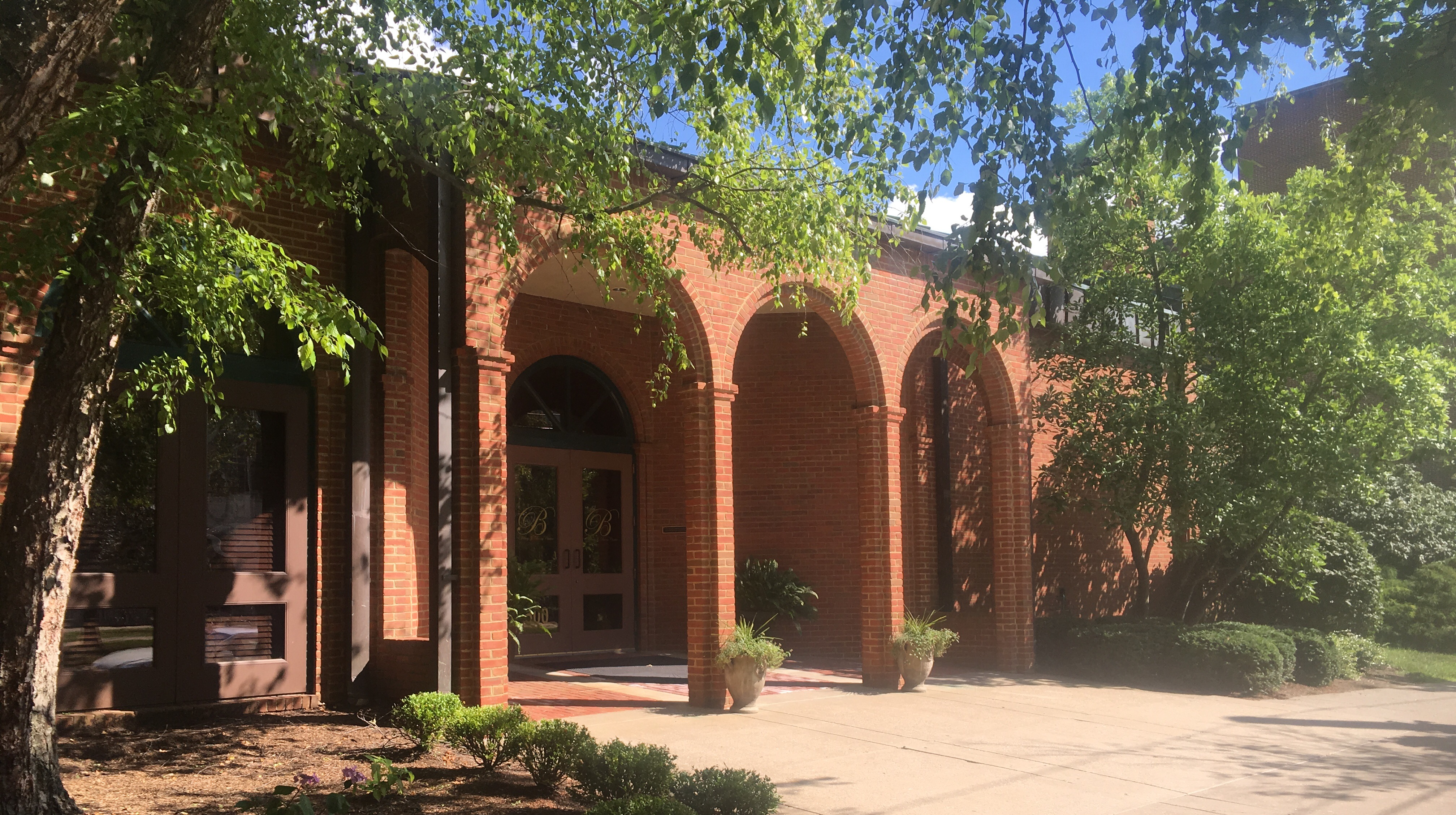 This picture depicts the front entrance of the Boone Center on Rose St.